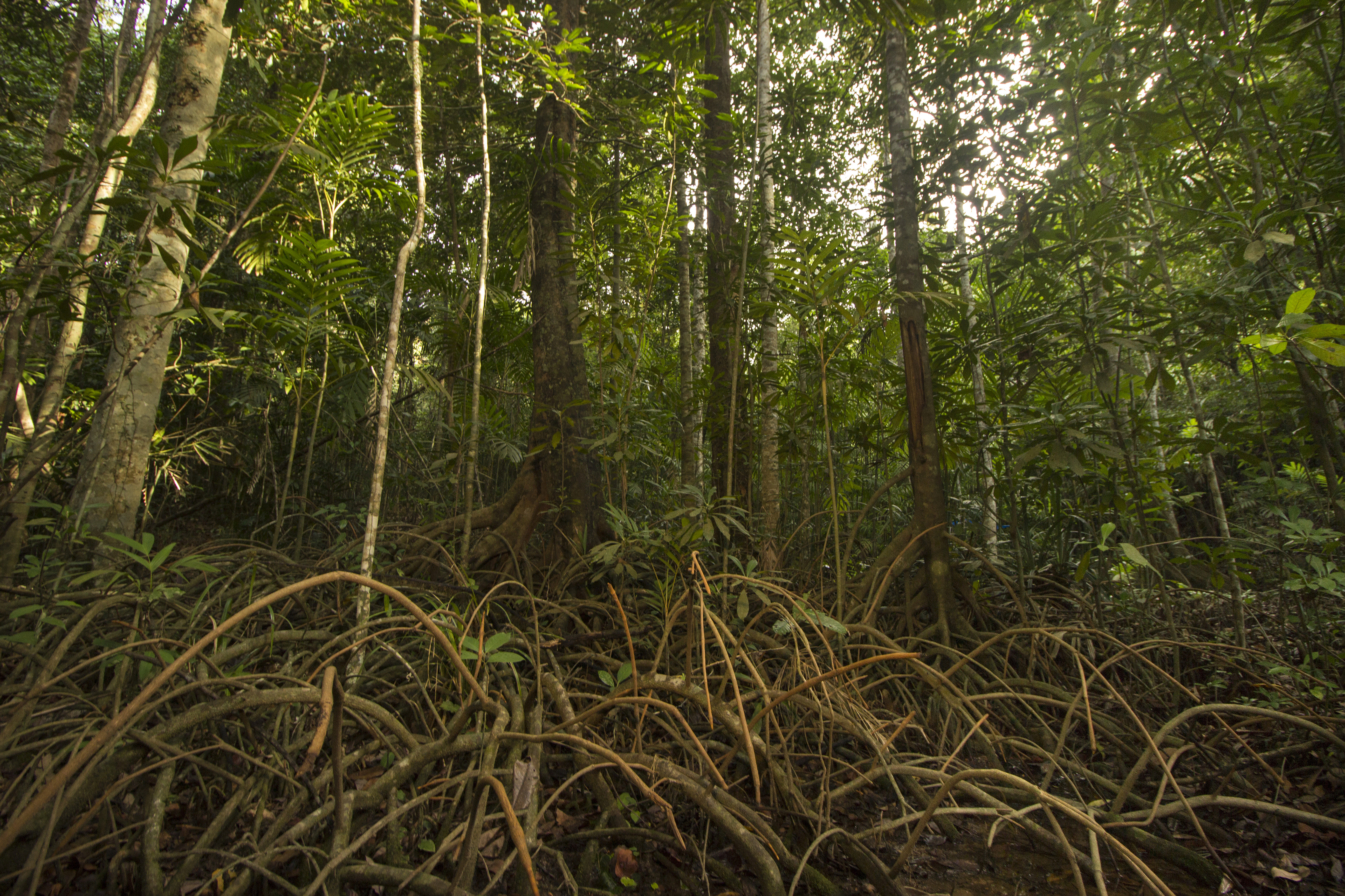 primitive myristica swamps